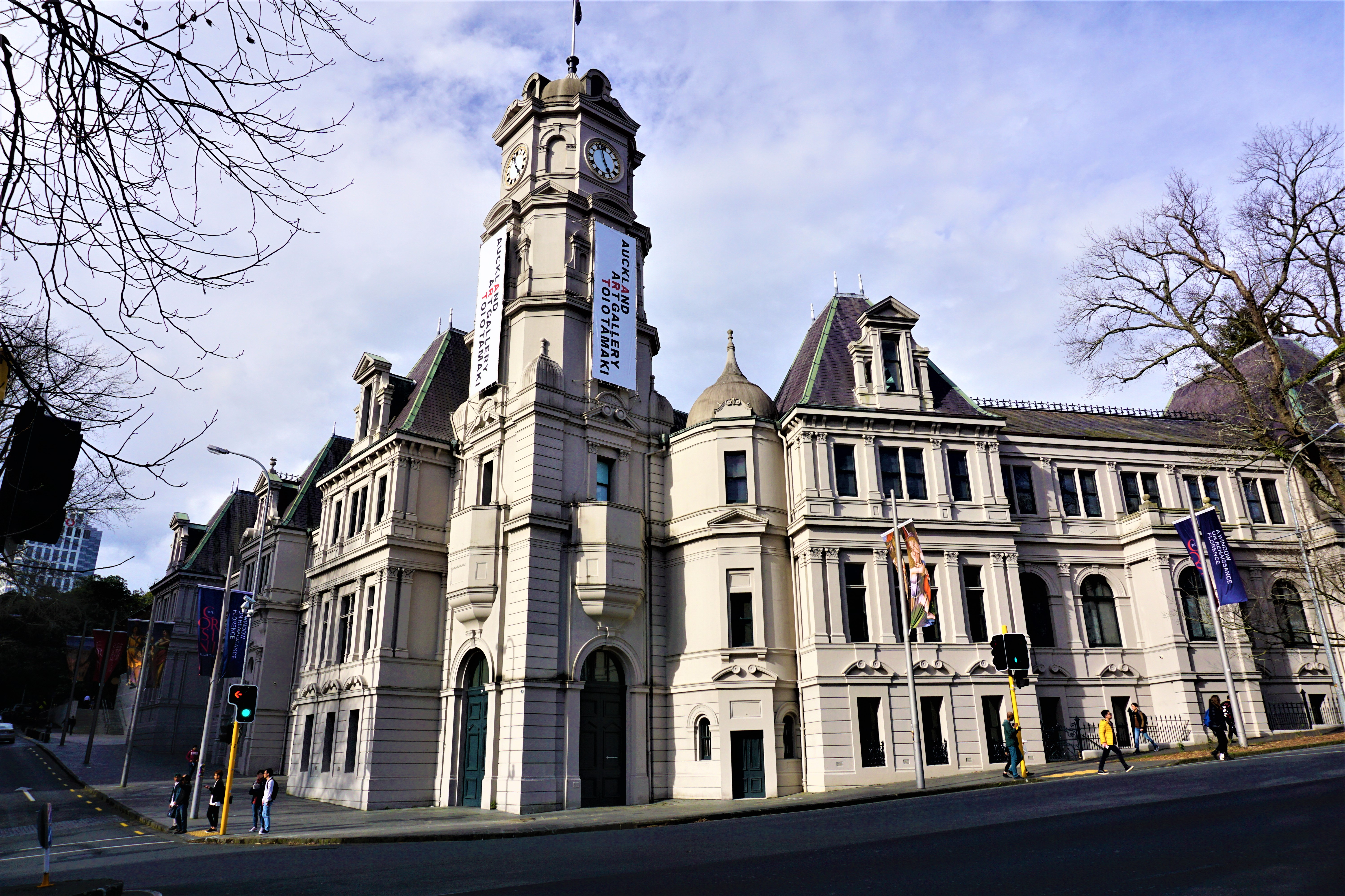 Auckland Art Gallery Toi o Tāmaki